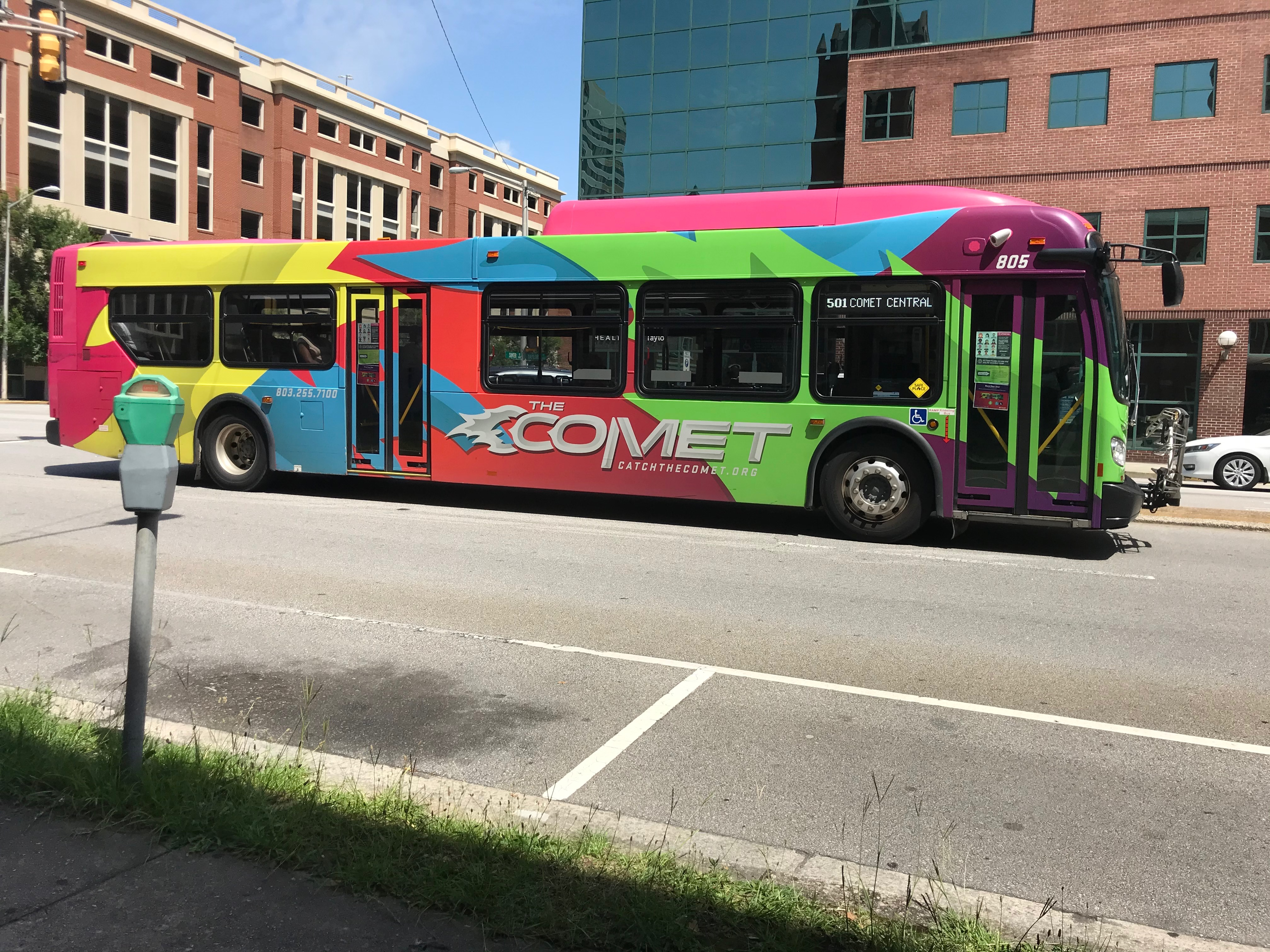 A COMET transit bus in Columbia, SC